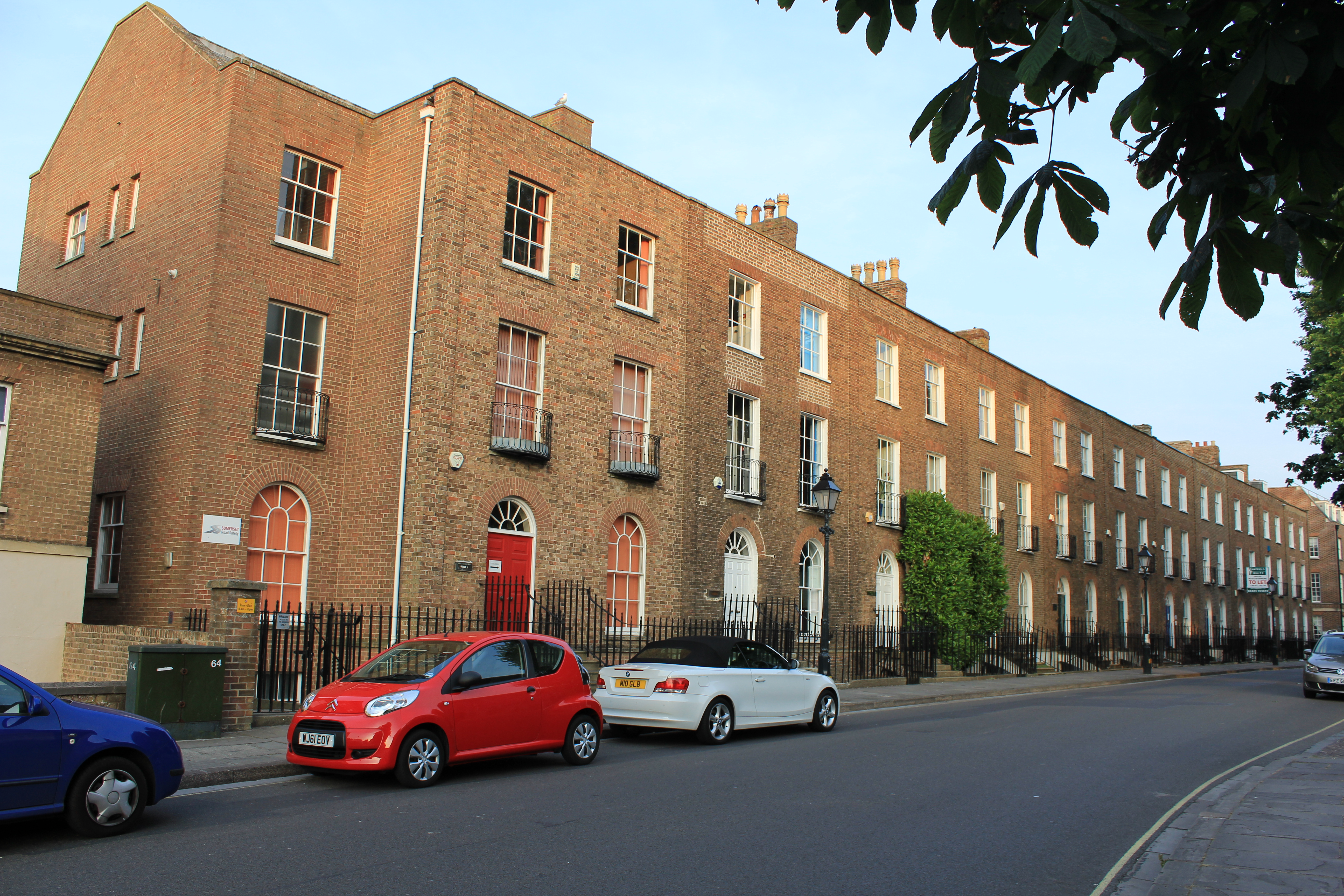 Looking down along The Crescent in Taunton, with number one in the foreground, and number eleven at the far end.